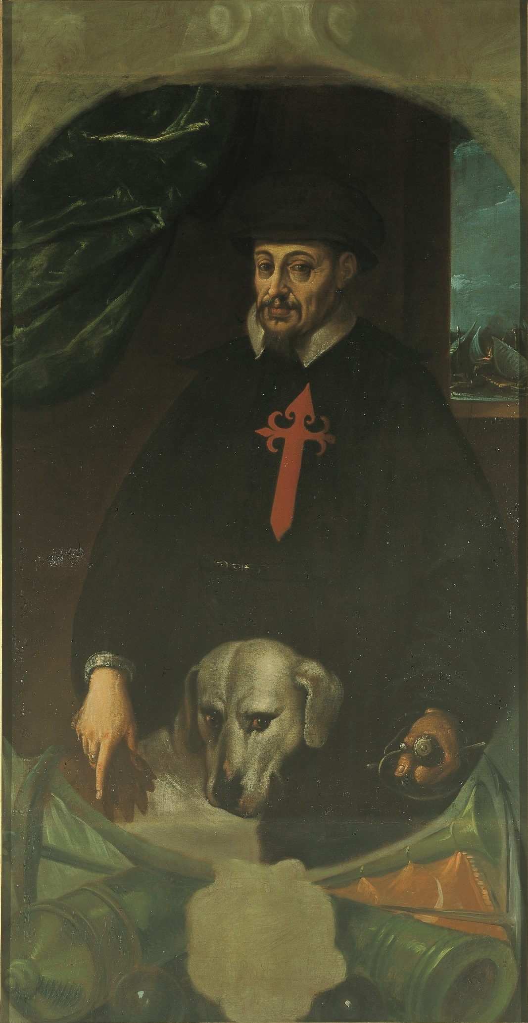 Portrait of Admiral of Genoese, his Excellency Giovanni Andrea Doria (1539-1606), Prince of Melfi, Marques of Triggiano